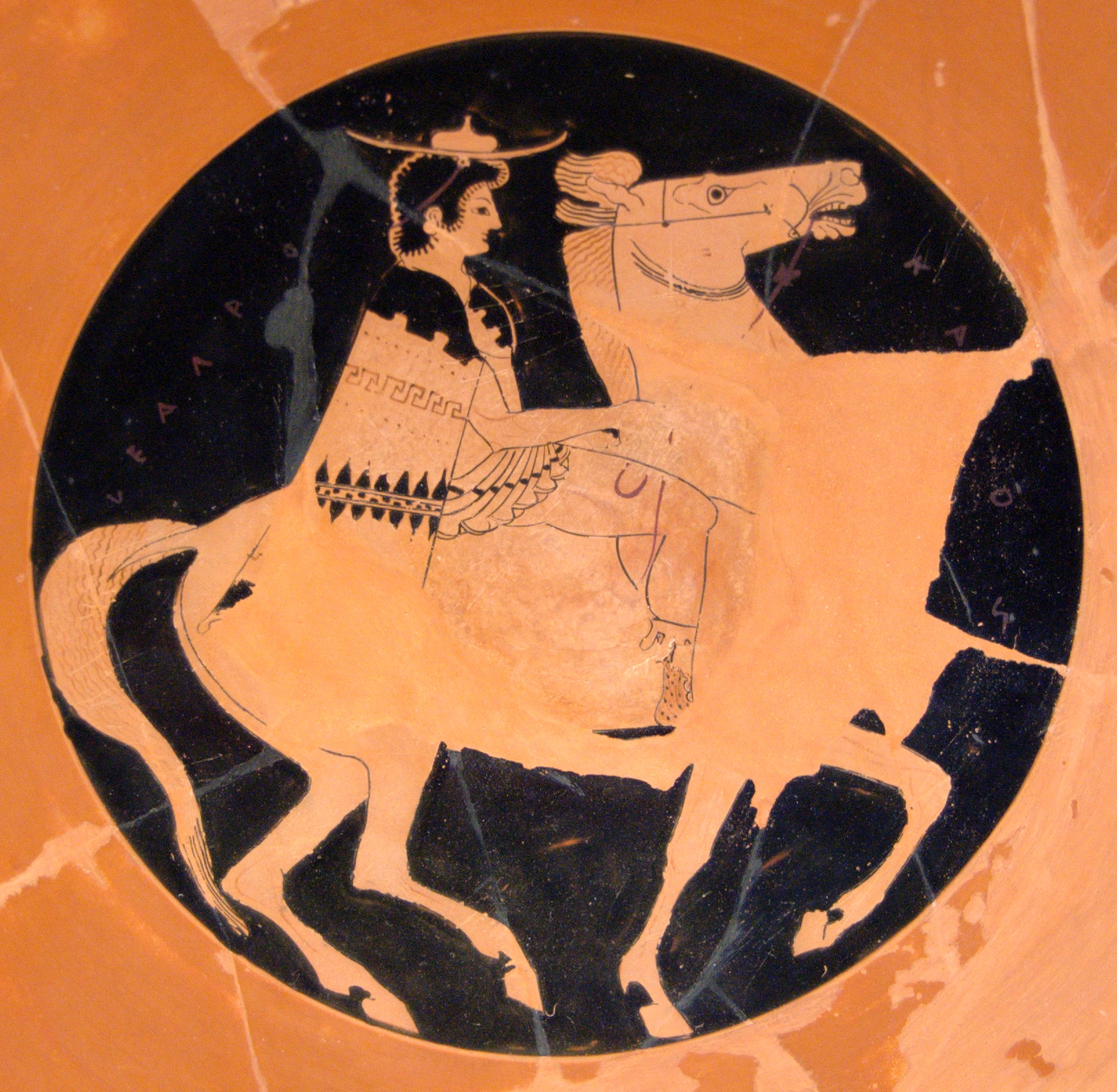 Rider. Inscription: ΛΕΑΓΡΟ[Σ] ΚΑ[Λ]ΟΣ (“Leagros is beautiful”). Tondo of an Attic red-figure kylix, 510–500 BC. From Vulci.